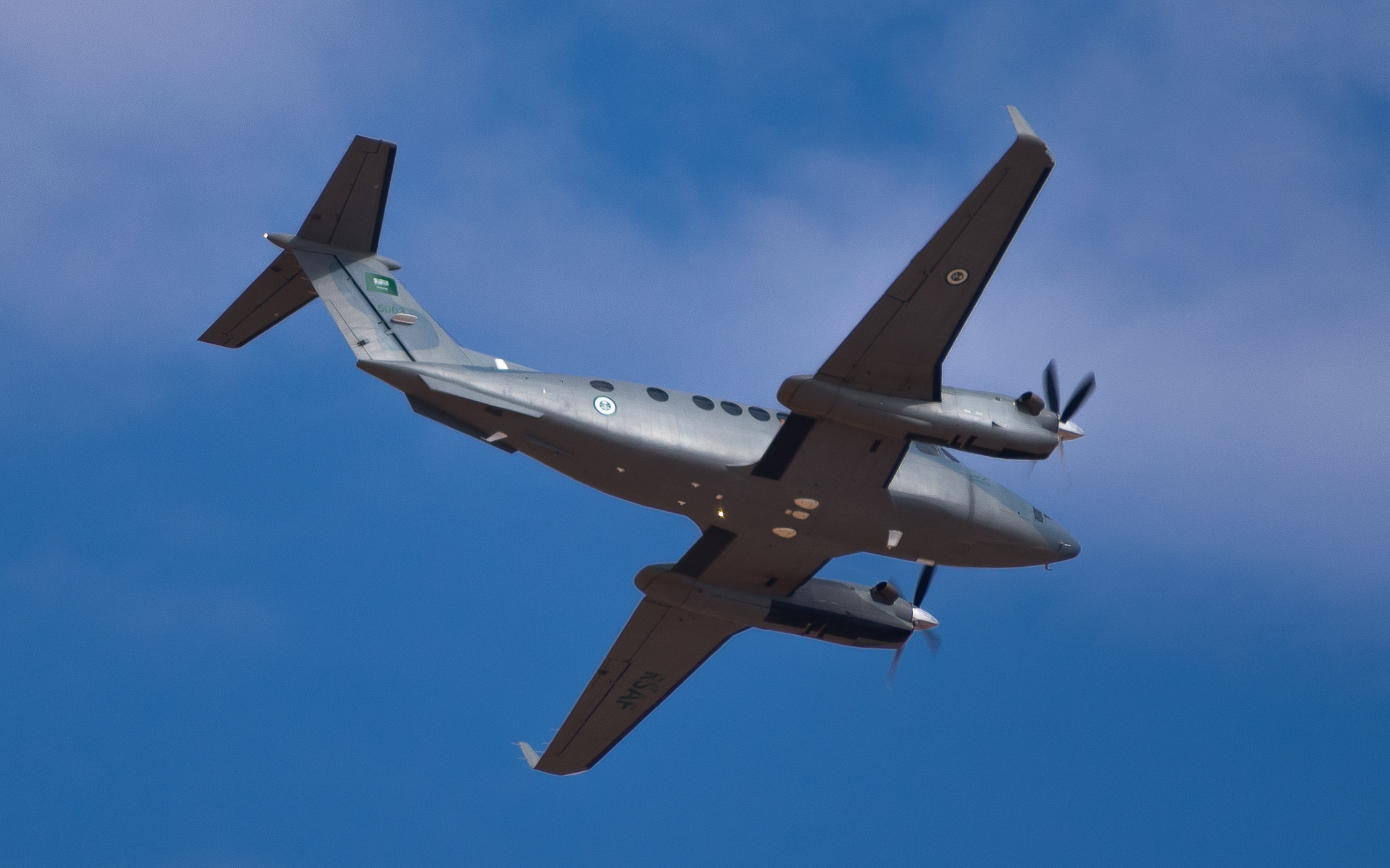 Takeoff